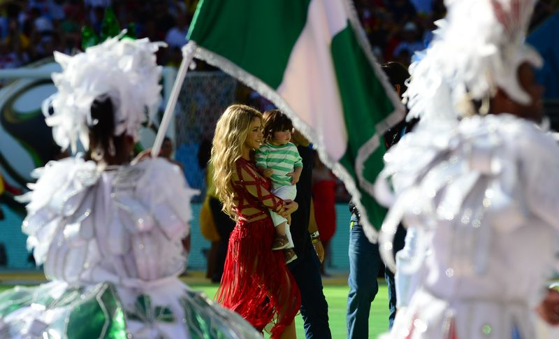 The Colombian singer Shakira and her son Milan at the 2014 Fifa World Cup closing show, Rio de Janeiro, Brazil.